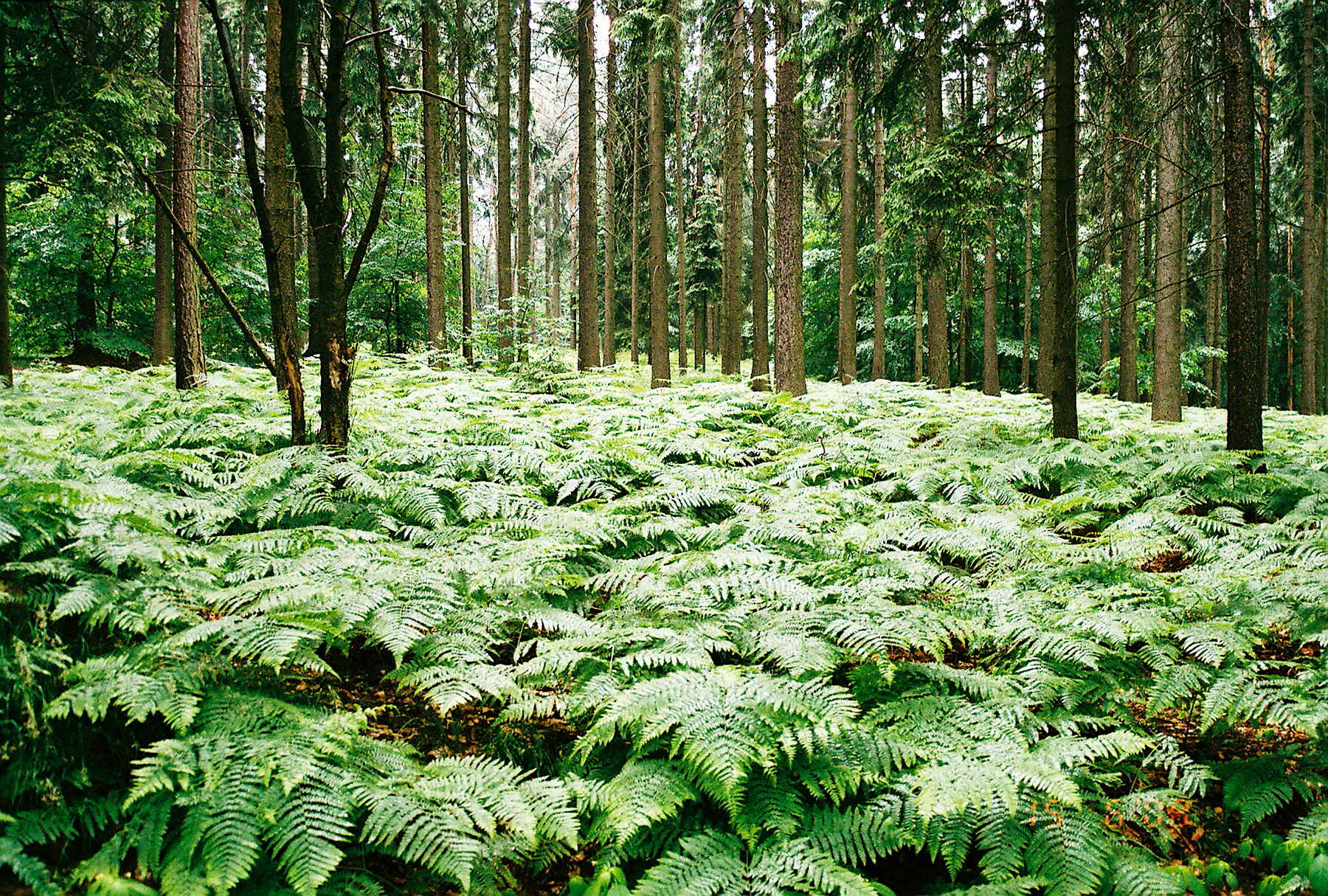 A Bracken grove along one of the many hiking trails in the area. Erzgebirge, Germany.